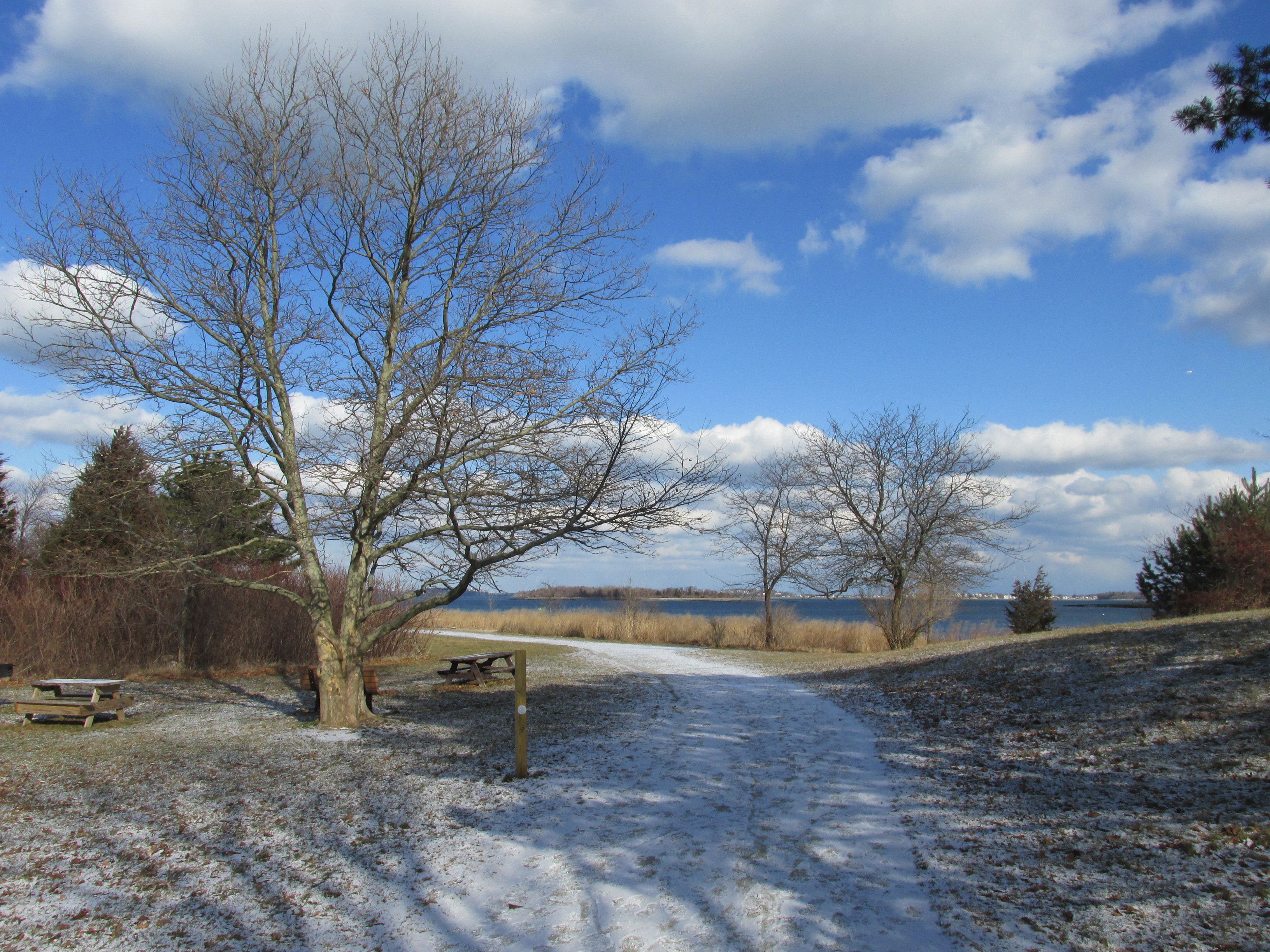 Webb Memorial State Park, Hingham Massachusetts